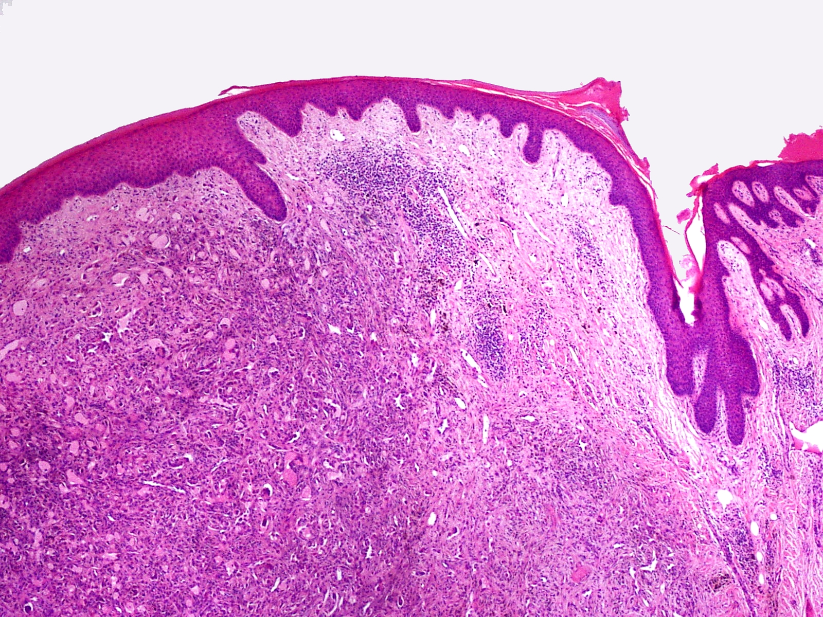 Kaposi sarcoma, nodular stage